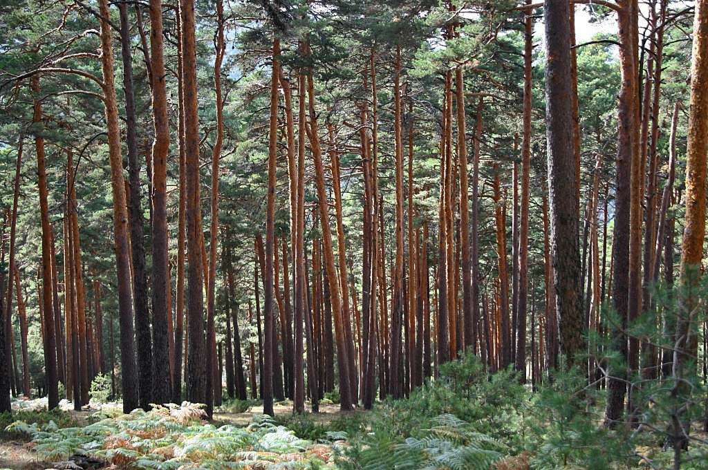 Pinus sylvestris (Pino Silvestre)